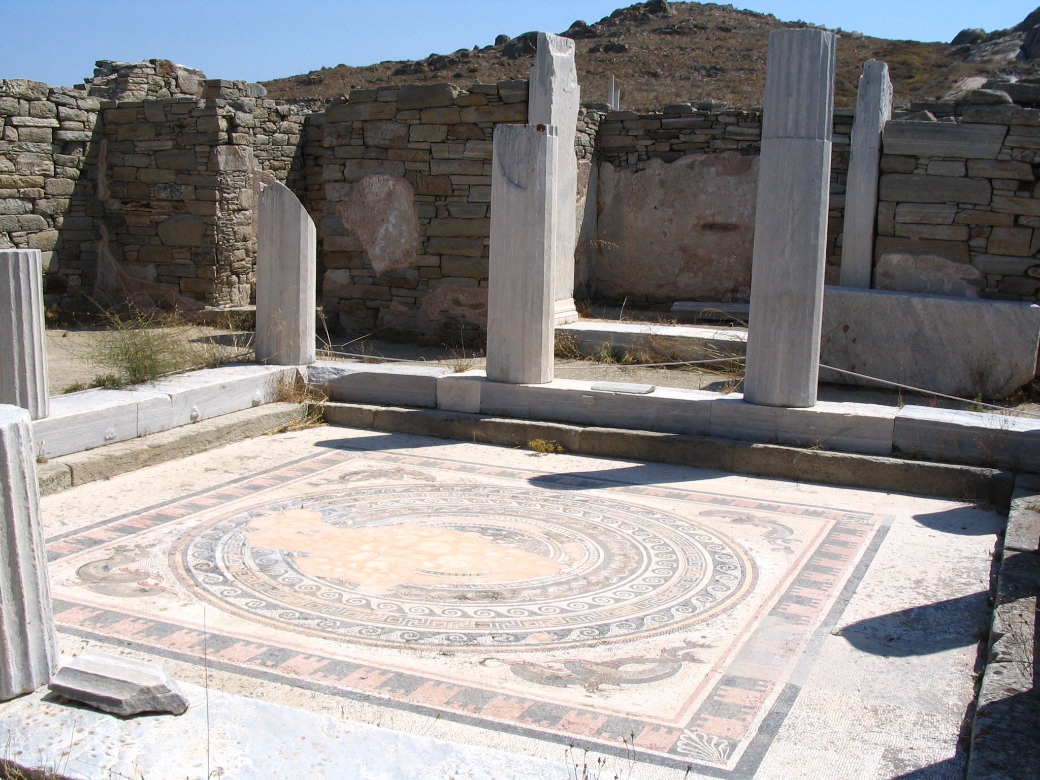 Délos, Greece